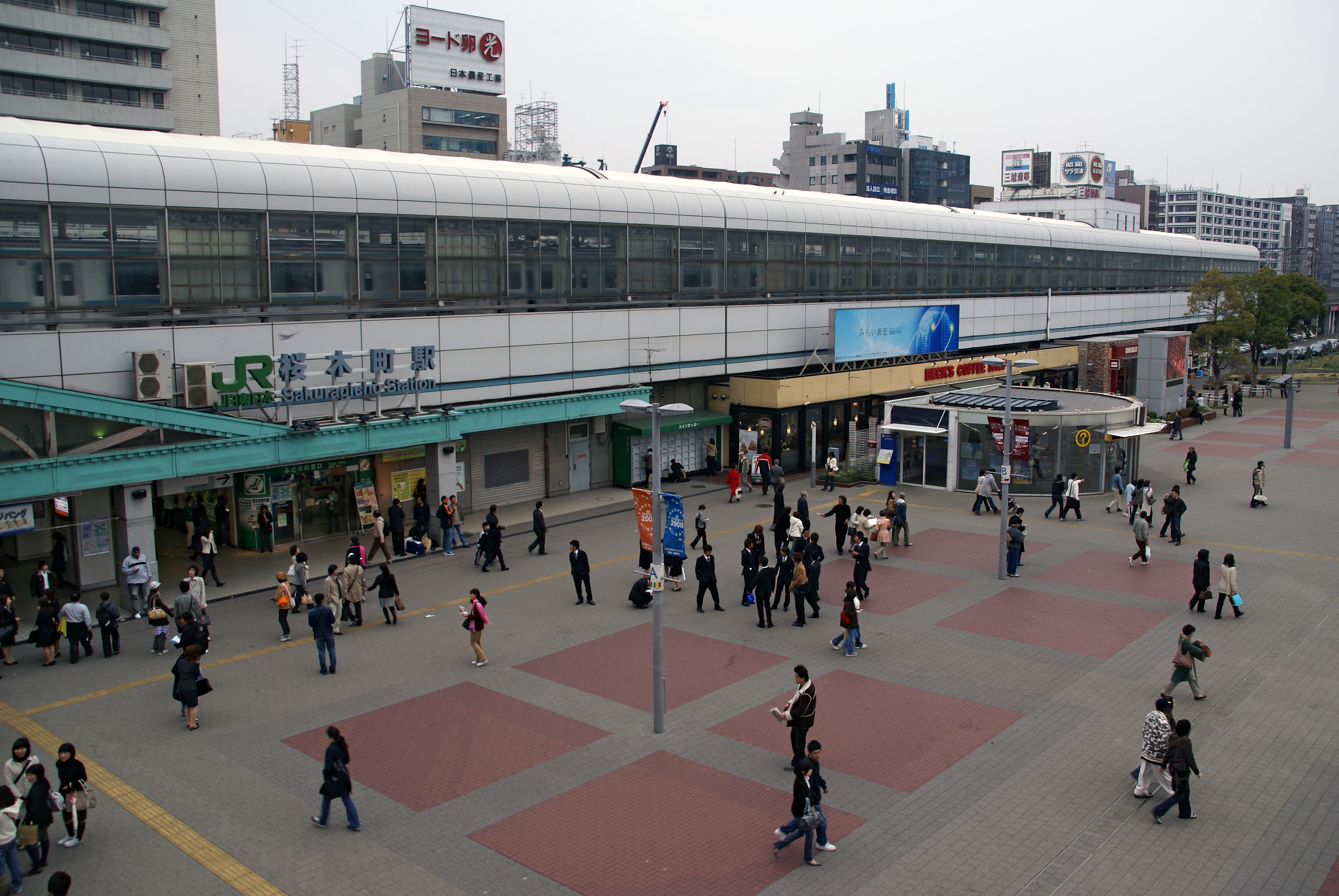 The east side of Sakuragicho Station in Yokohama, Kanagawa, Japan